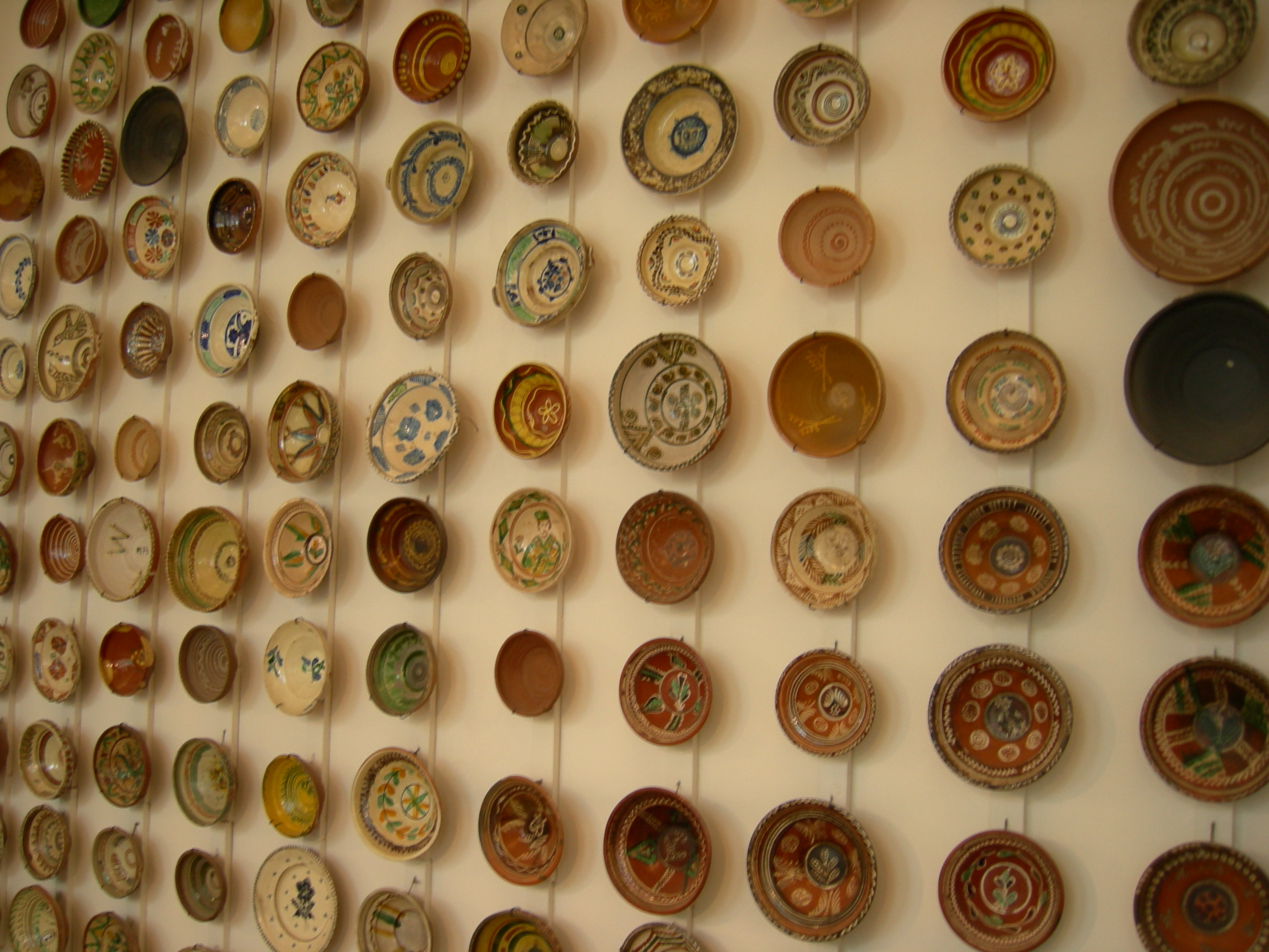 Plates. Museum of the Romanian Peasant, Bucharest, Romania.